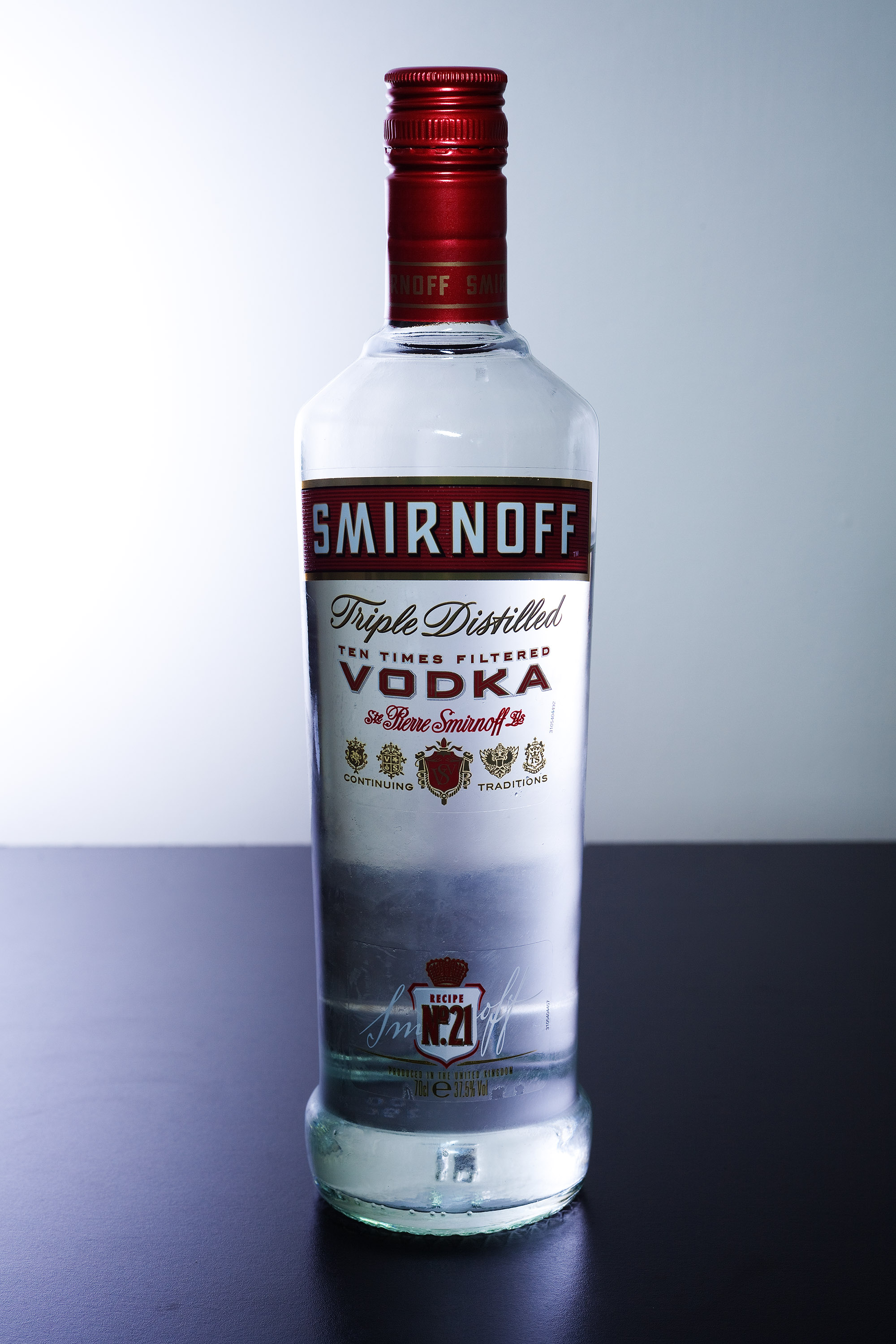 A bottle of Smirnoff Red Label vodka.